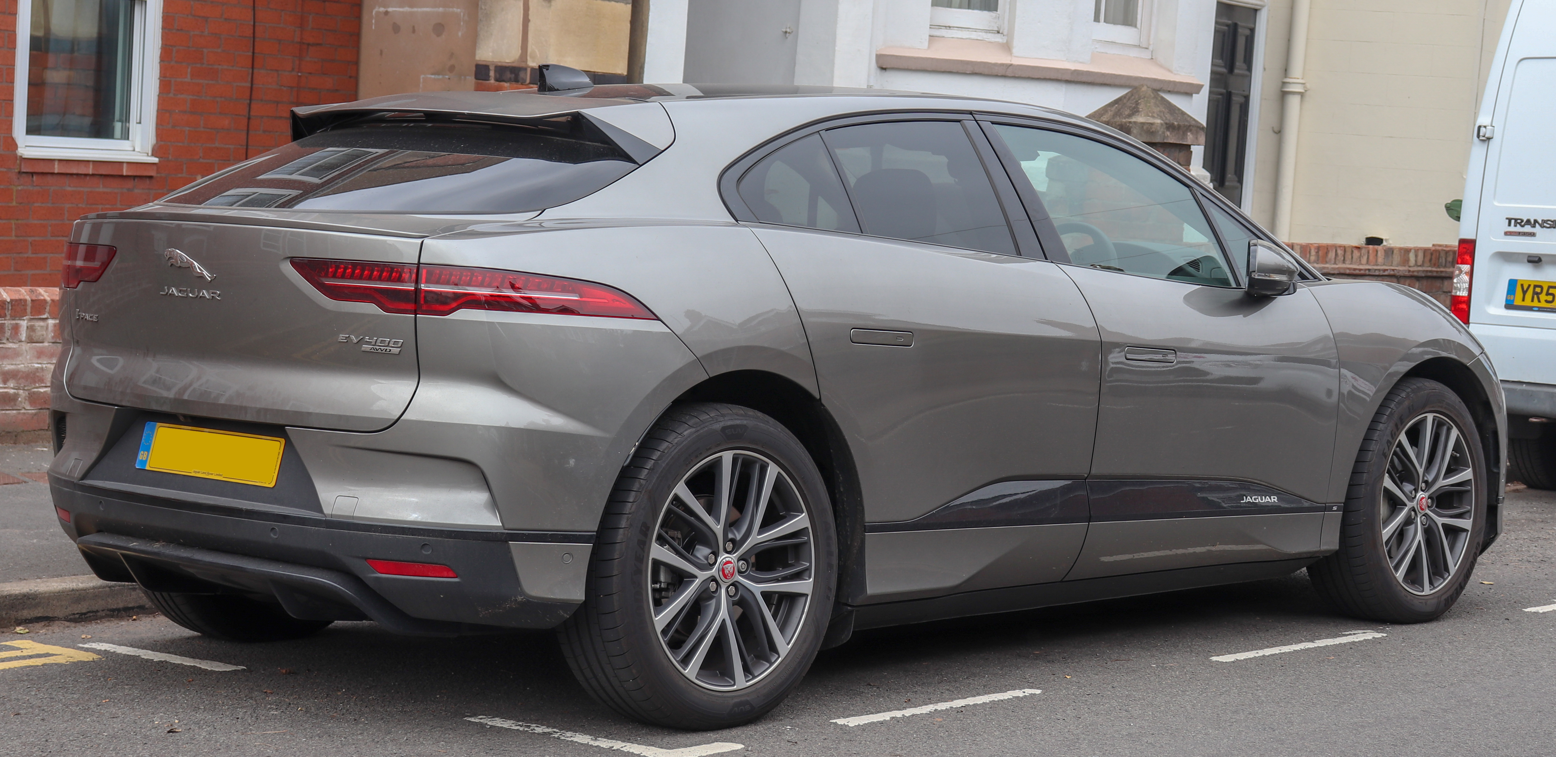 2018 Jaguar I-Pace EV400 S Rear Taken in Leamington Spa